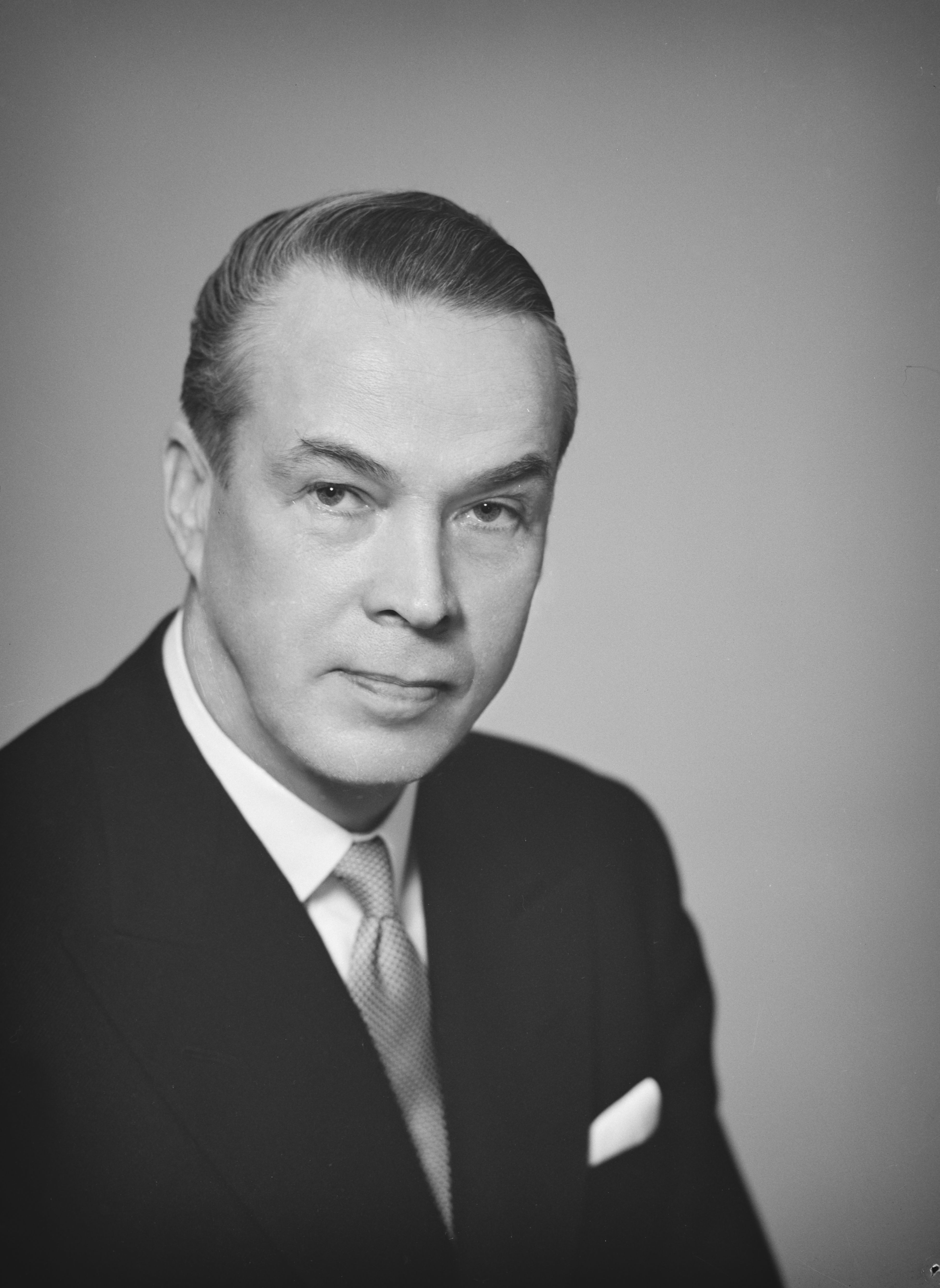 Photograph of the Finnish business executive Paavo Honkajuuri (1914–2001).